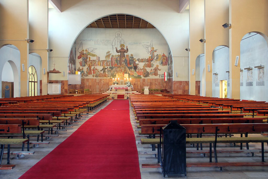 indoor picture of the Saint Antal chirch